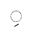 The letter Kasra from the Arabic alphabet, belonging to the group of Harakat diacritic marks, used to represent vowels. Kasra sounds like a short /i/. The circle indicates the position of the consonant the Harakat is used upon.